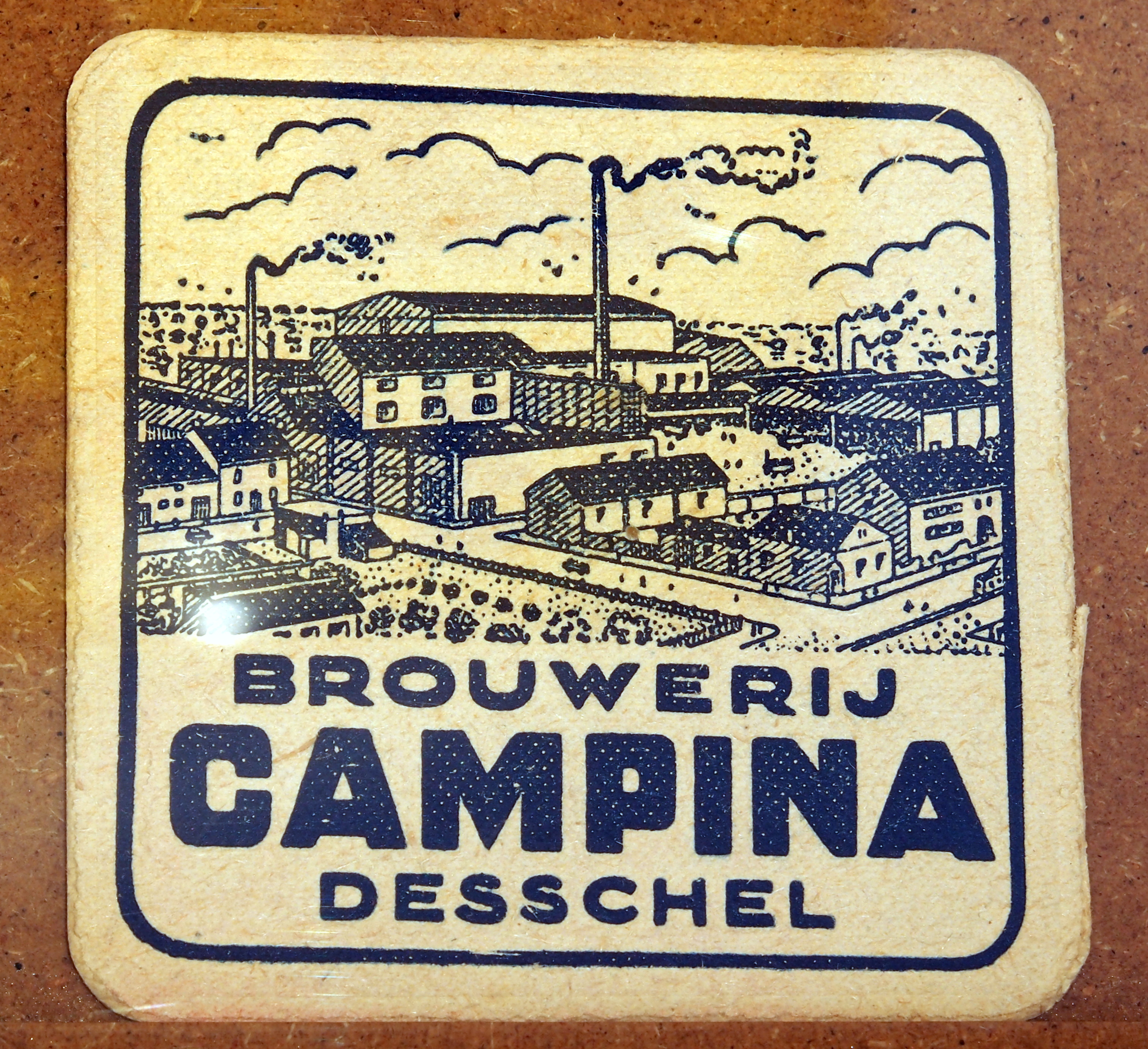 Brouwerij Campina Desschel. (Photographed through glass.)